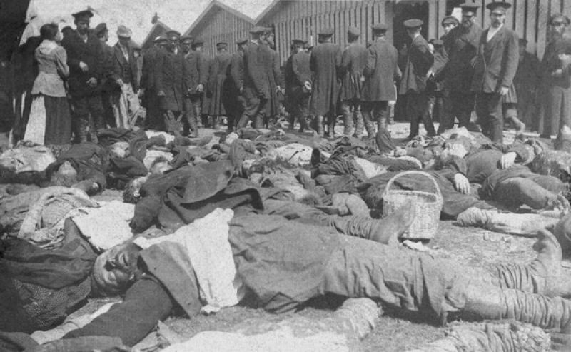 Picture perished in the Khodynka Tragedy